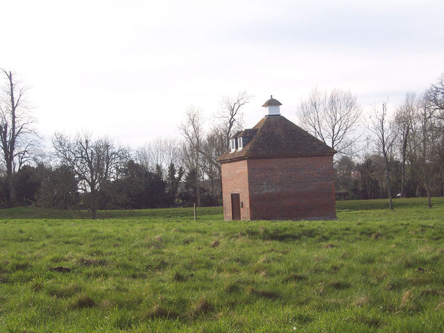 Dovecote near All Saints Church, Netheravon Dovecote built in the 18th century of brick with a tile roof. Restored in 1980. Still with most of its 700 nesting boxes.